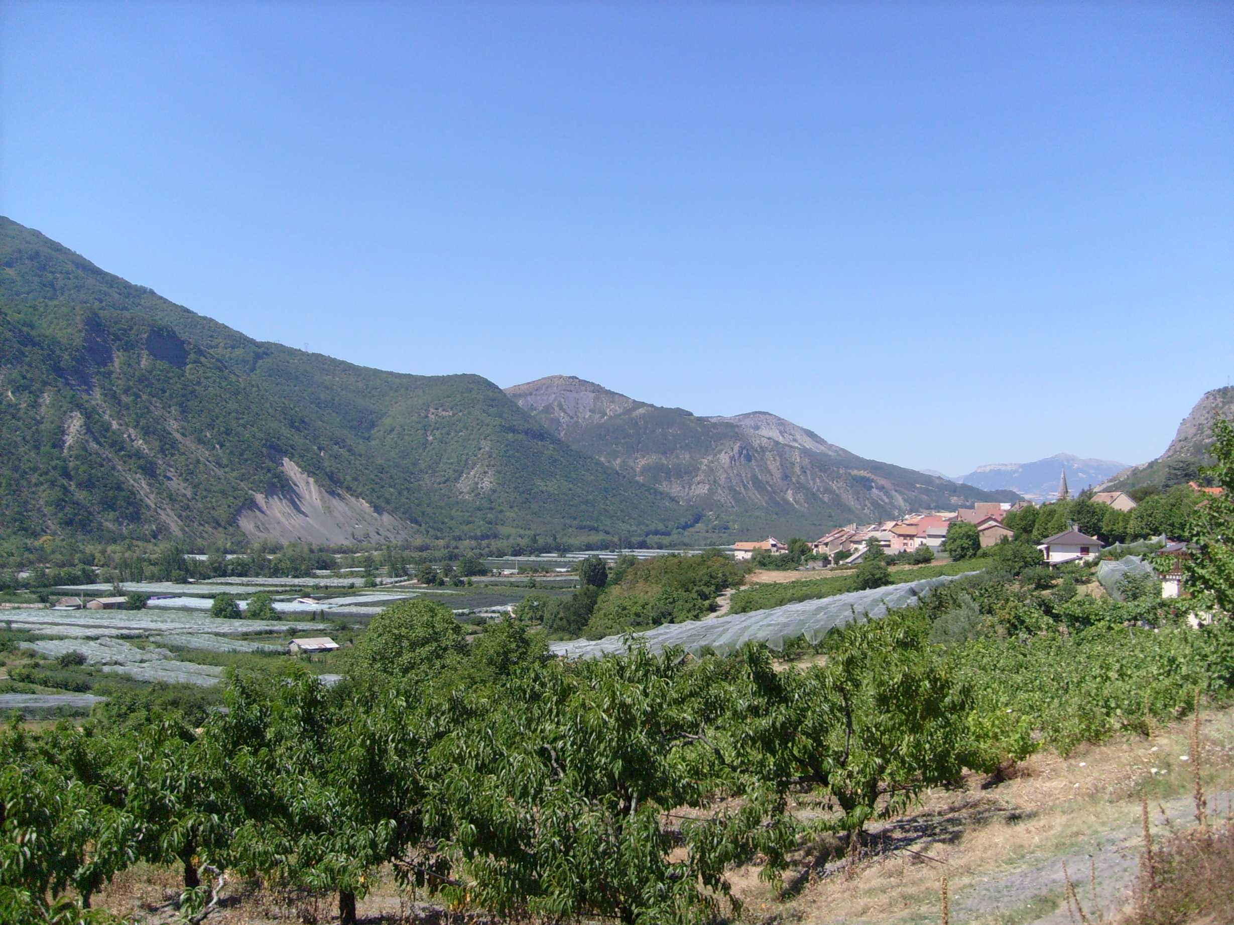 View over Remollon( Hautes-Alpes, France). In the left side, valley of Durance river and fruit tree growing fields.